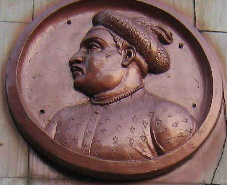 A plaque outside Shaniwar Wada in Pune. H.H. Shrimant Sardar Ranoji Shinde (Scindia) Bahadur, Subedar of Malwa, Prince of Gwalior, was the founder of princely State of Gwalior. 'Sardar' is a title used by the Maratha nobility in Gwalior State. It is a title used by the most senior Mahratta nobles